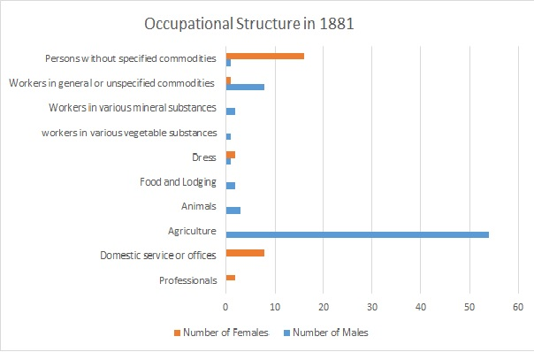 Occupational structure of Lindsell in 1881, using data from